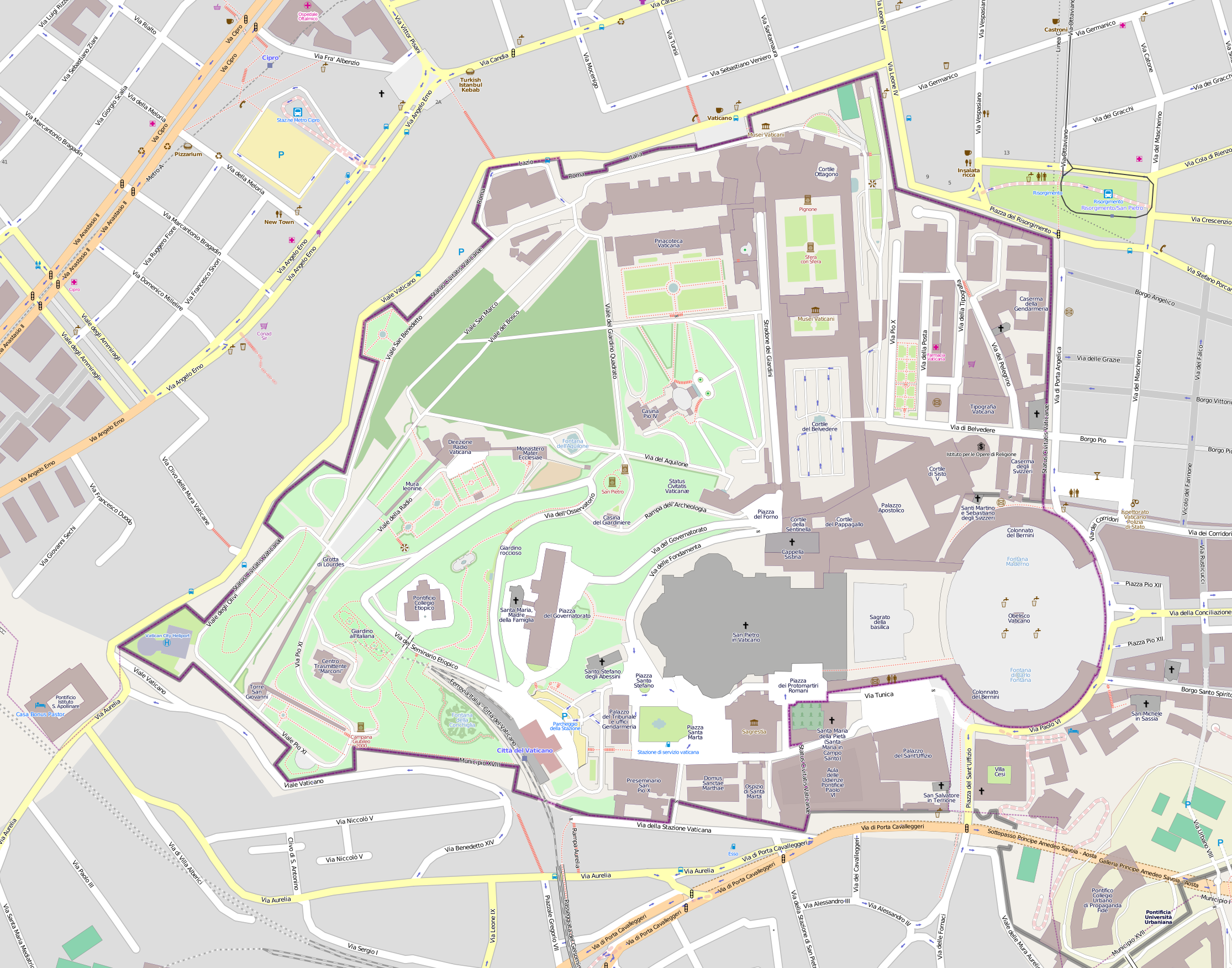 This map of Vatican City was created from OpenStreetMap project data, collected by the community. This map may be incomplete, and may contain errors. Don't rely solely on it for navigation.